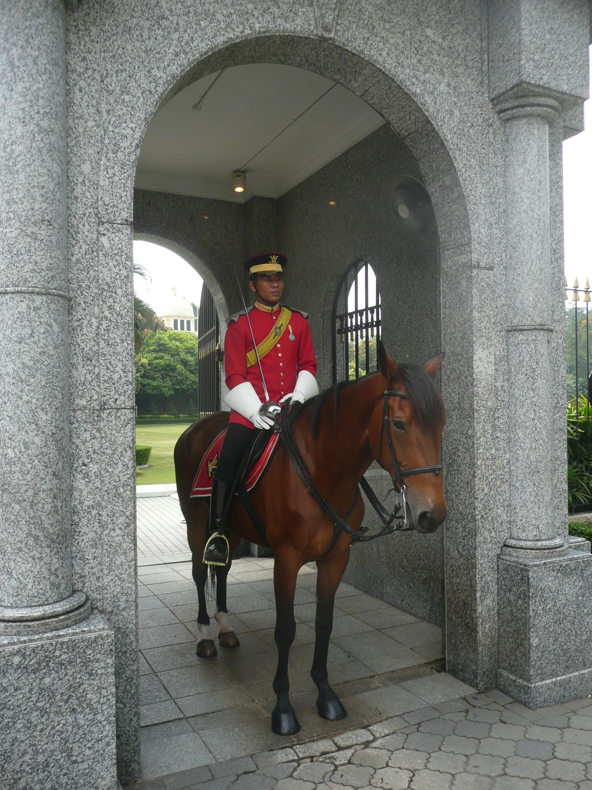 Royal guard of the Malaysian Army outside the main gate of the Istana Negara, Kuala Lumpur.